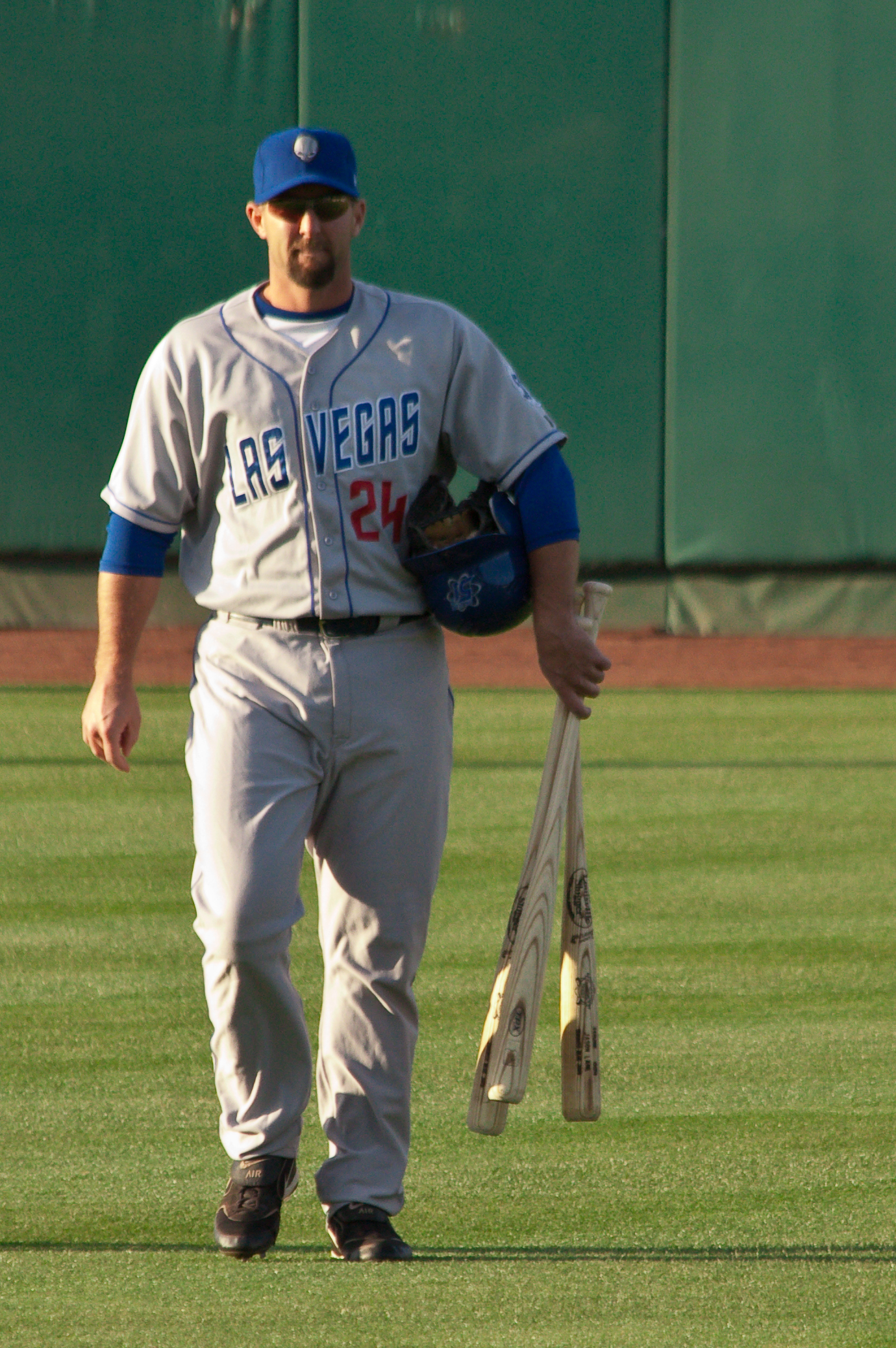 Description Jason Lane of the Las Vegas 51s Date25 April 2009SourceOwn workAuthorFabrictramp / talk to mePermission(Reusing this file) I own the copyright 16:12, 30 April 2009 . . Fabrictramp . . 1,380×2,074 (2.71 MB) Jason Lane of the Las Vegas 51s